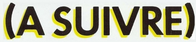 Original logotype for the French comics magazine (A SUIVRE) (1978–1997). Designed by Étienne Robial.